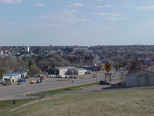 Minot, North Dakota, Minot (Dakota du Nord) A view of Minot, North Dakota looking south from the slope of North Hill, just below the International Inn. The road shown in the photograph is Broadway, which takes more of the character of a highway than a street until it reaches the bottom of the hill. The downtown district is clearly visible in the centre-left. Minot State University is located at the bottom of the hill on the right; it is obscured by a Super 8 Motel and a beer billboard. The blue South Hill water tower can be seen on the horizon on the right. The older Rosehill water tower can be seen on the horizon on the left.